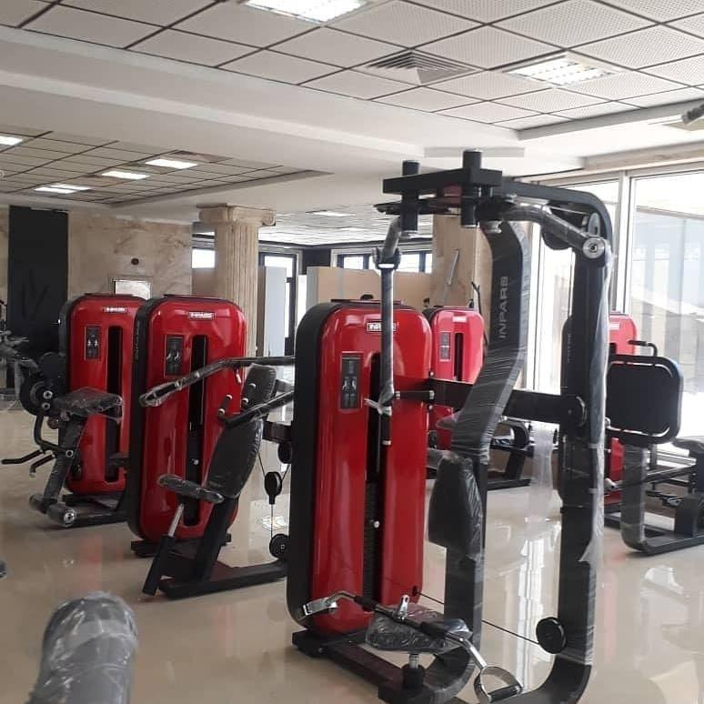 Image of bodybuilding machines